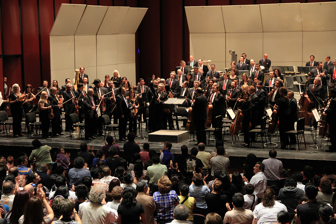 La OSEM es dirigida por el Mtro. Enrique Bátiz Campbell